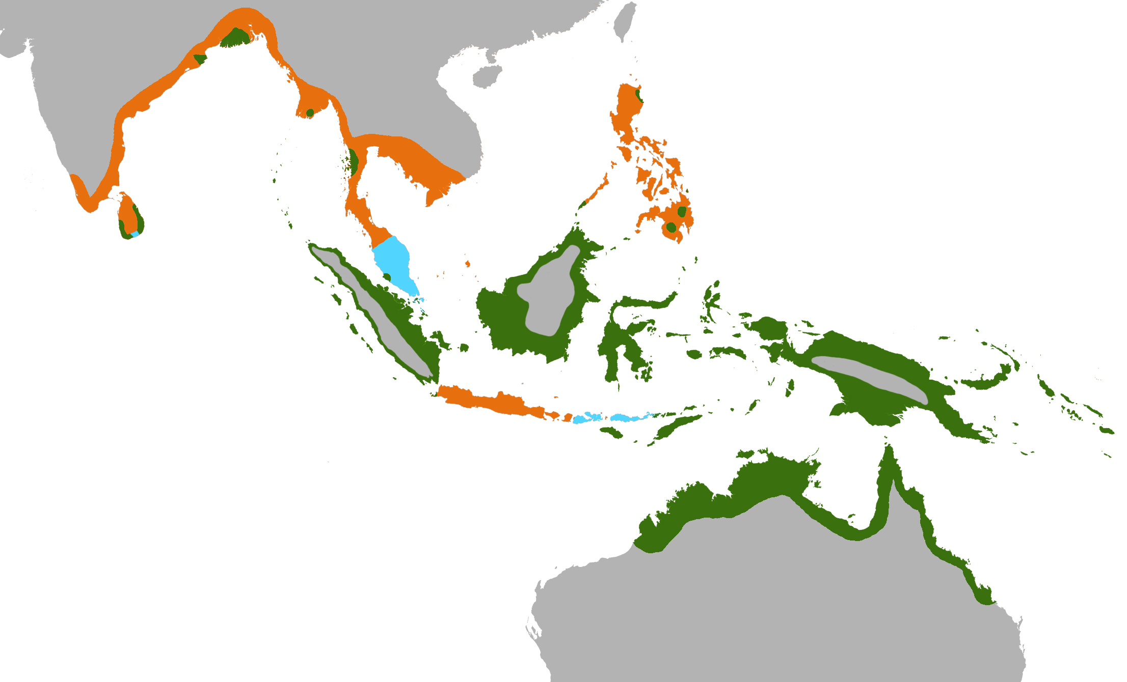 green - current distribution orange - former distribution, probably extinct today blue - unclear or rare